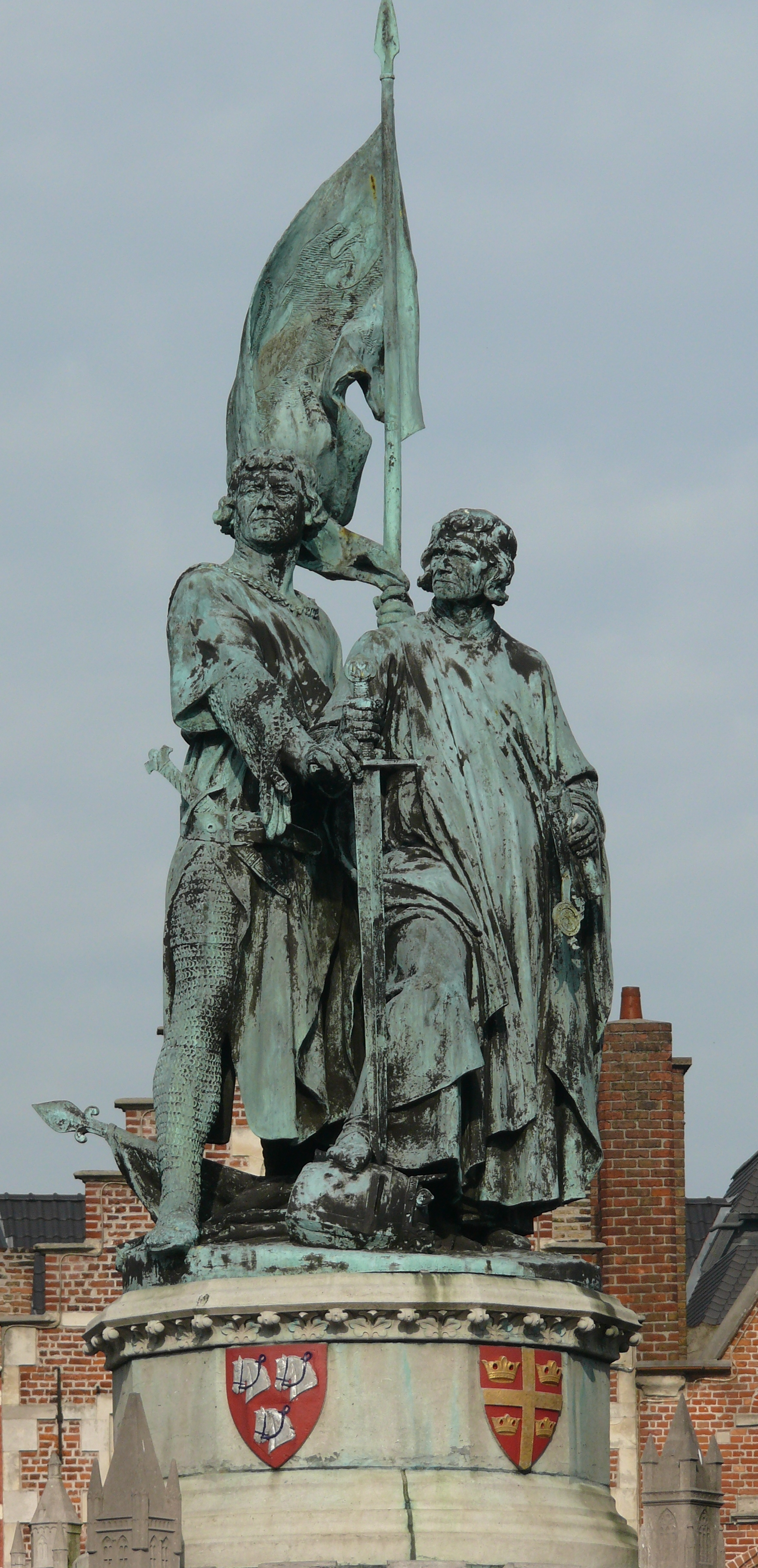 In the center of the market square of Bruges stands the statue of Jan Breydel and Pieter de Coninck, who led the Bruges Matins in May 1302. Jan Breydel and Pieter de Coninck have often been portrayed as patriotic heroes in Belgium because of their passion for Flemish identity. They were both present at the Battle of the Golden Spurs, where a Flemish makeshift army and a motley alliance of Flemish and Namur petty nobles defeated the French army under the command of Robert II of Artois.